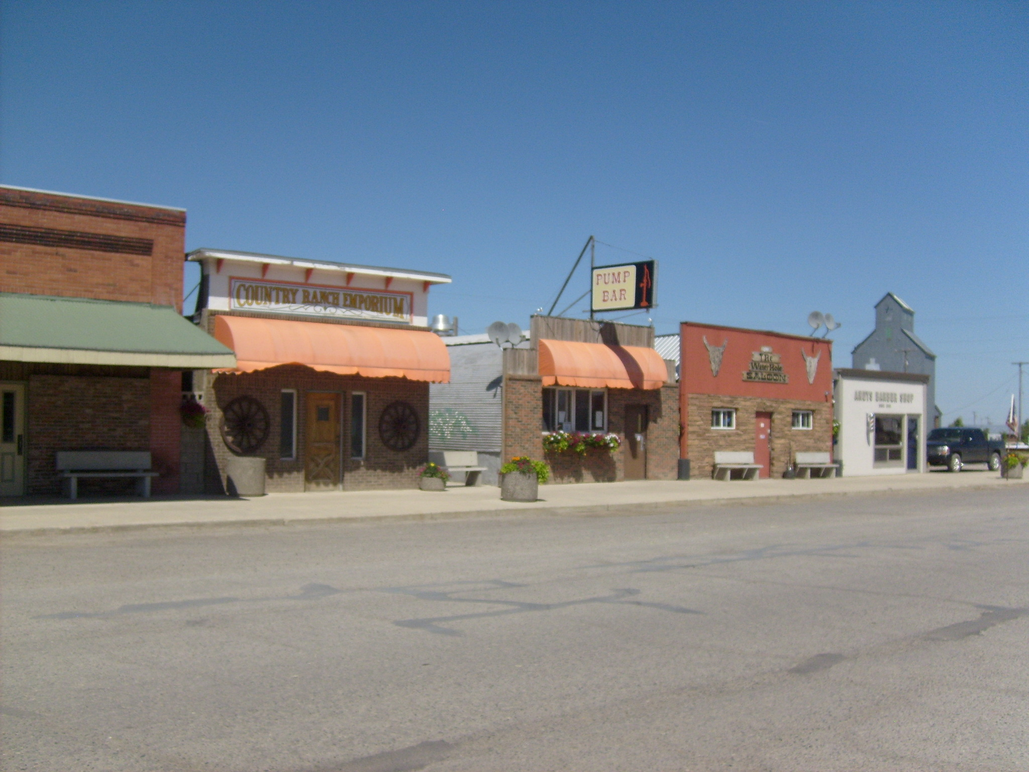 Stanford, MT Downtown